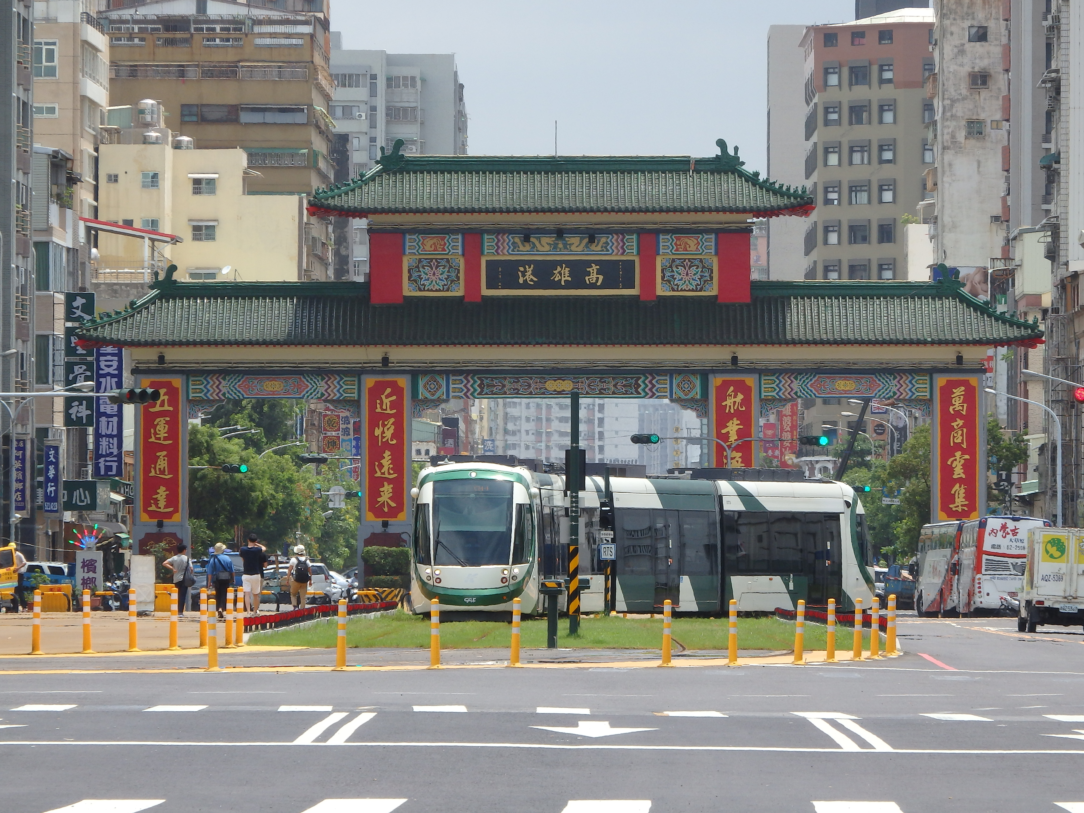 Kaohsiung Mass Rapid Transit Circular light rail Line between Penglai Pier-2 Station and Hamasen Station